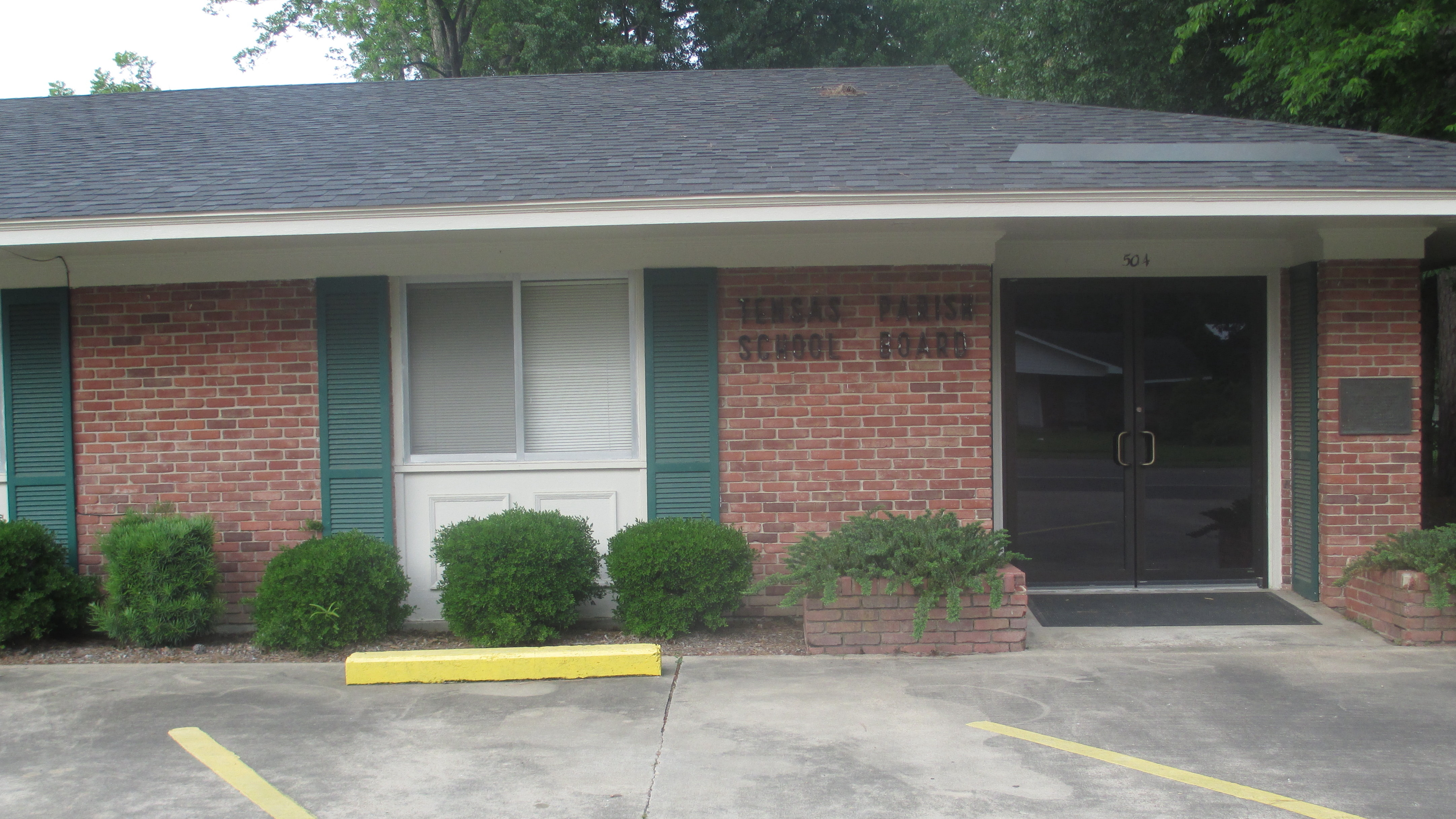 I took photo with Canon camera in St. Joseph, LA, of Tensas Parish School Board office.